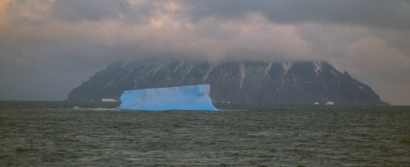 View of Beaufort Island, in the Ross Sea, Antarctica, with an iceberg.